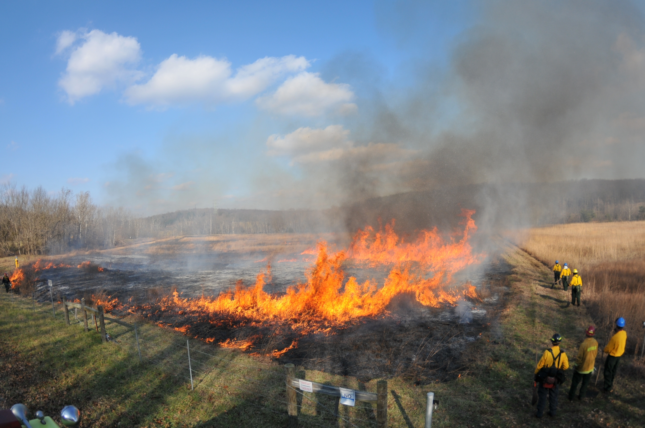 A controlled prairie burn was conducted at the Portsmouth site on Dec. 18, 2011. Portsmouth Gaseous Diffusion Plant firefighters recently completed a prescribed fire, or controlled burn, of an 18-acre prairie at the site, two weeks ahead of a regulatory deadline. “Burning the prairie in a controlled manner stimulates the germination of prairie grasses and reduces the invasion of woody plants to maintain a healthy prairie ecosystem,” said DOE Site Director Vince Adams. The prairie ecosystem was the result of remediation of former lime sludge lagoons that settled out waste lime from the plant’s water treatment plant.